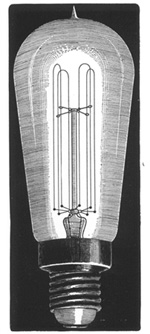 This is a photograph on a website of the Smithsonian Institute's Museum of American History of an early (1905) GE tungsten filament incandescent light bulb. The Smithsonian Institute is an agency of the US Govt, which by law cannot own copyright. The image is therefore in the PD. The picture is of a tungsten filament lamp embodying the invention of US Pat 1,018,502, which was one of those involved in the 1926 US v GE litigation.